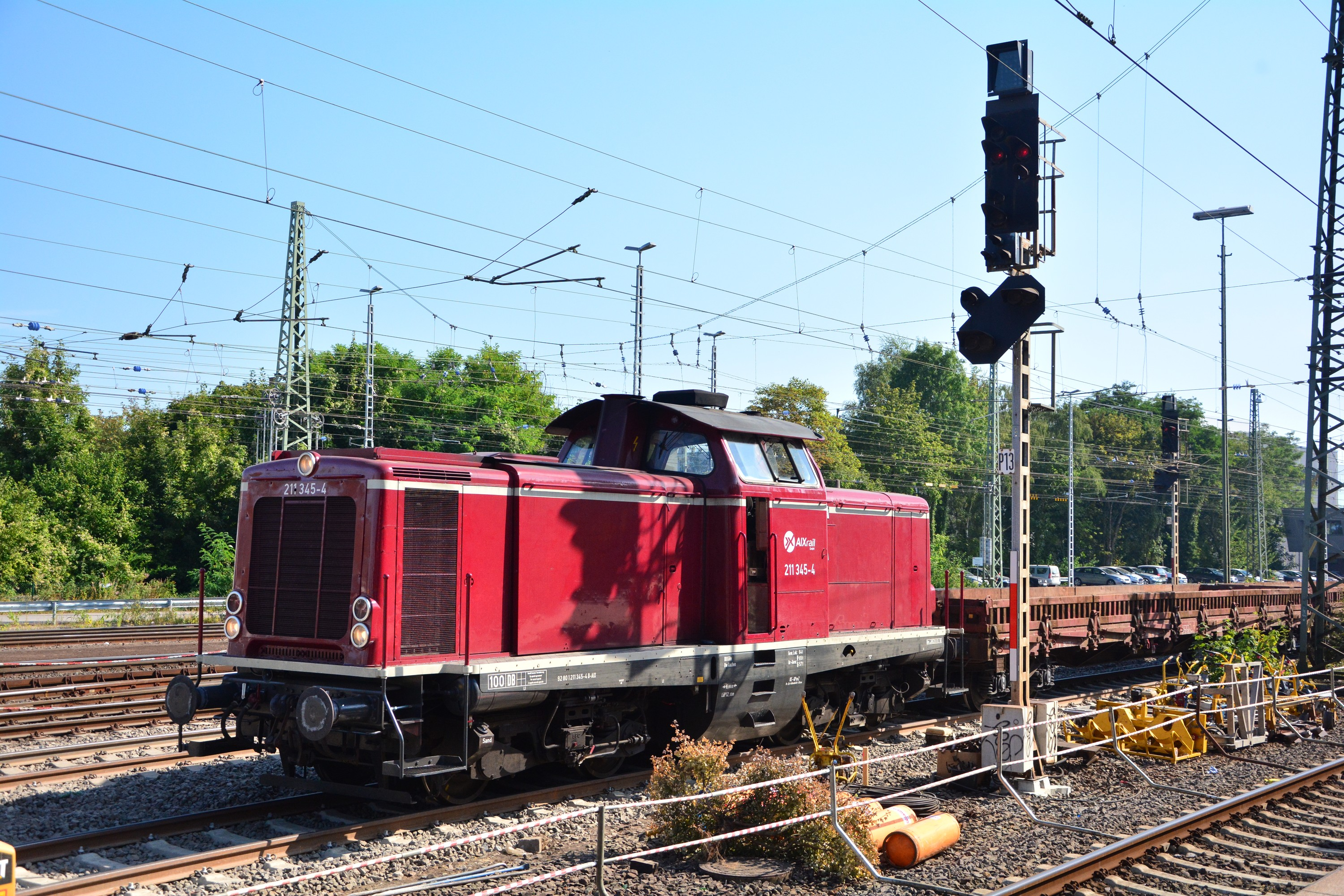 AIXrail V100 211 345 at Aachen-West